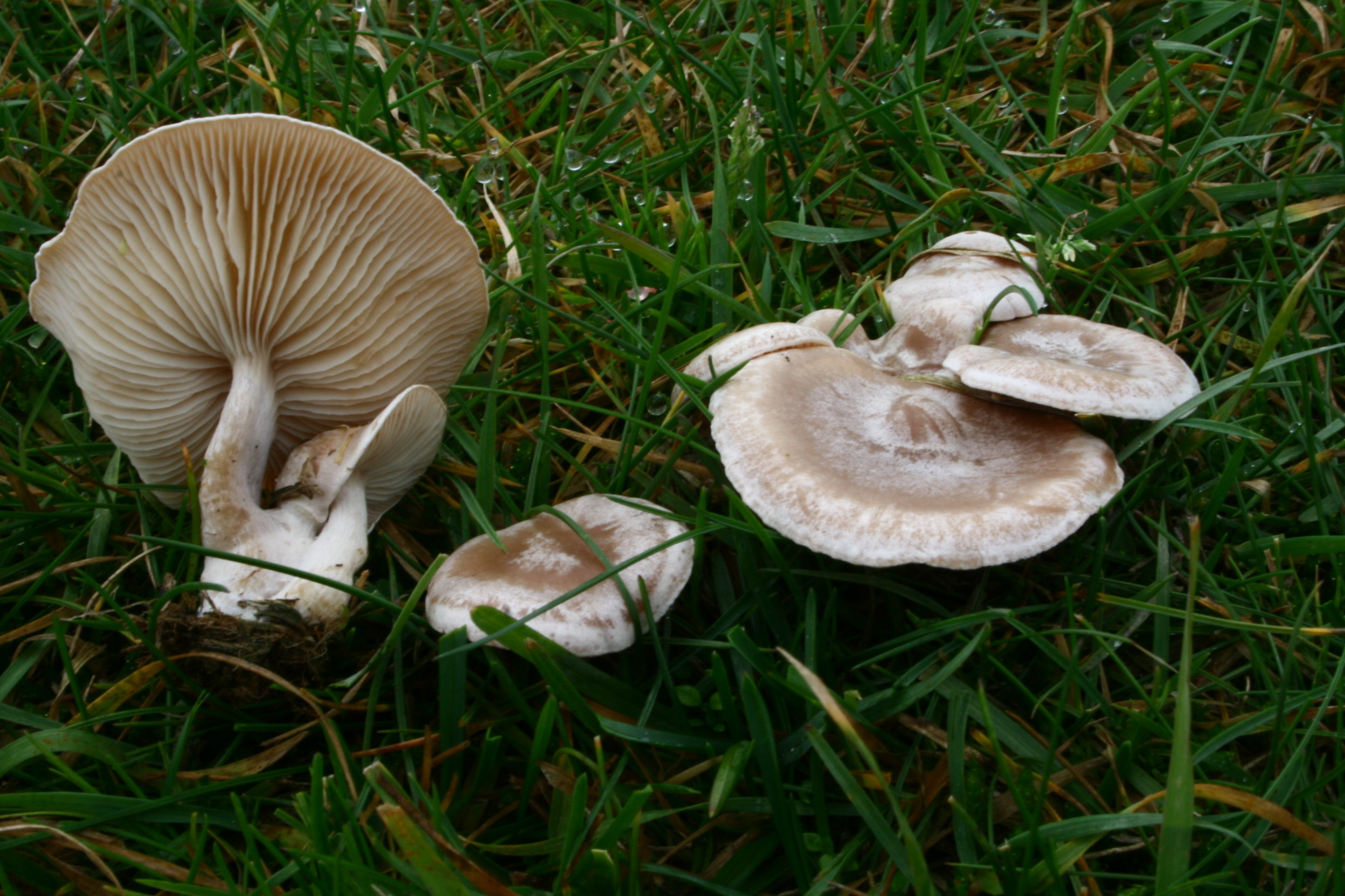 Clitocybe rivulosa (= Clitocybe dealbata) in a park near Massy, France.